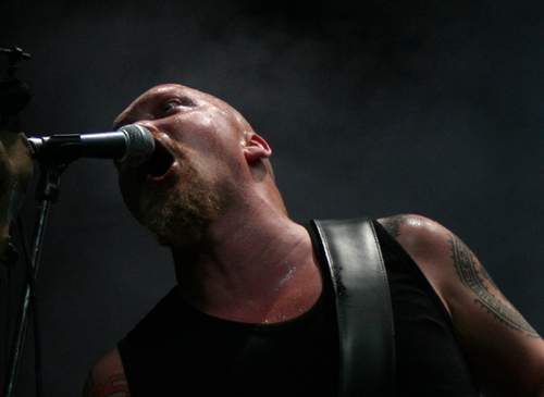 Vocalist Ofu Khan at a concert at Rockefeller Music Hall in Oslo.